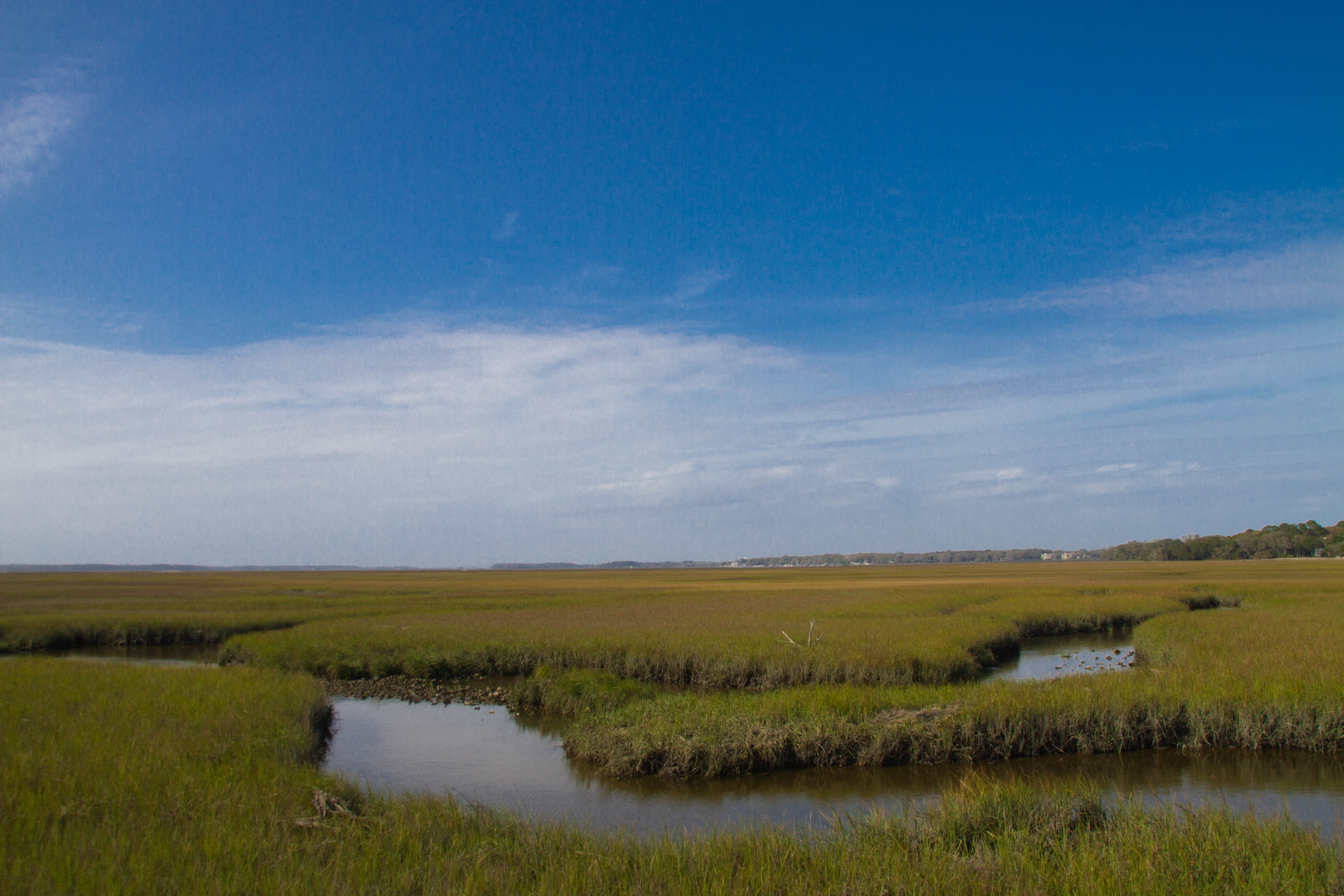 Marches in Amelia Island, Florida, United States.